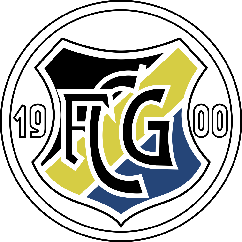 Logo of former german football club FC Germania Halberstadt (1900-1945)